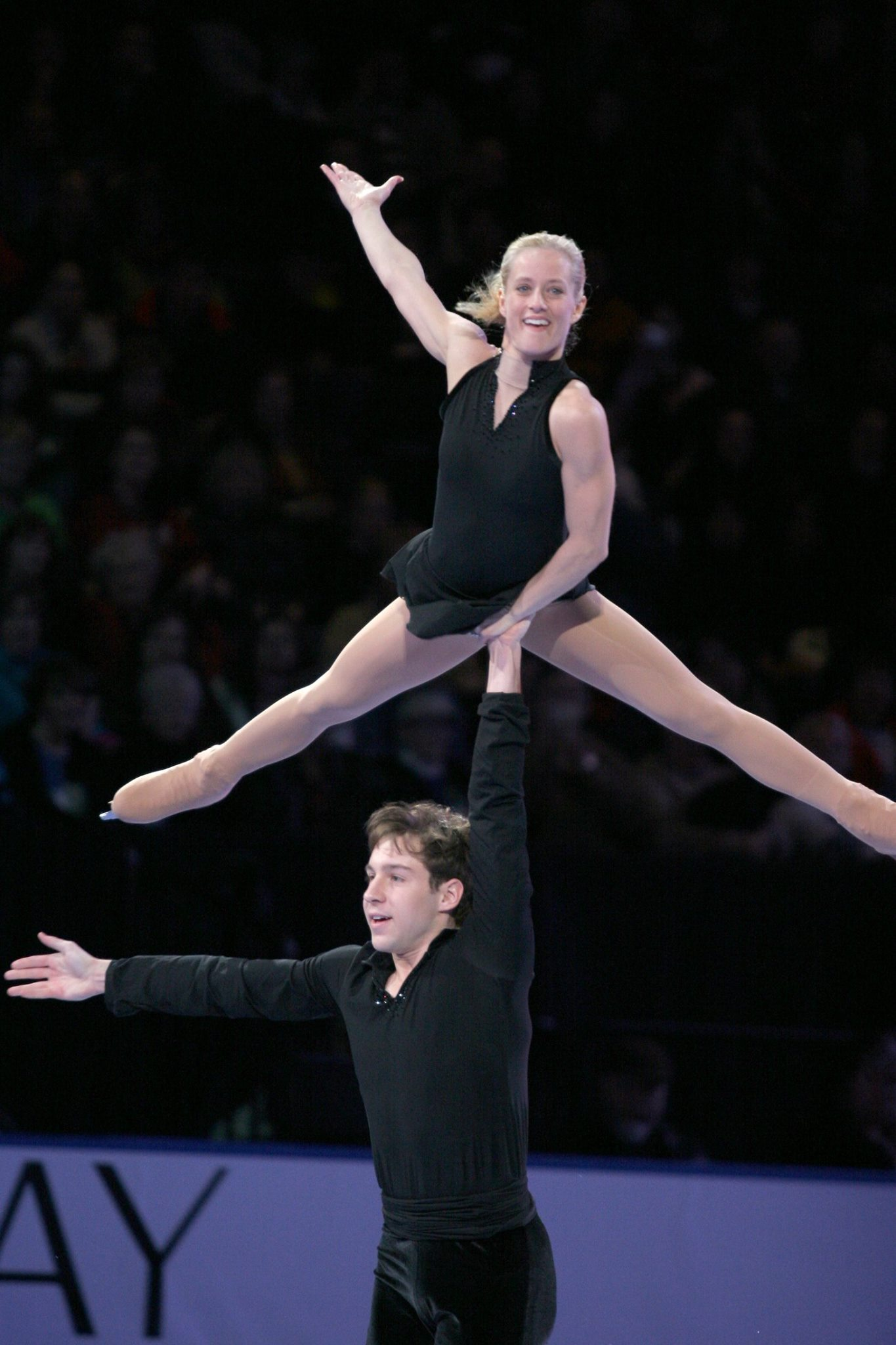 Tiffany Scott & Rusty Fein perform at the 2006 State Farm Figure Skating Exhibition